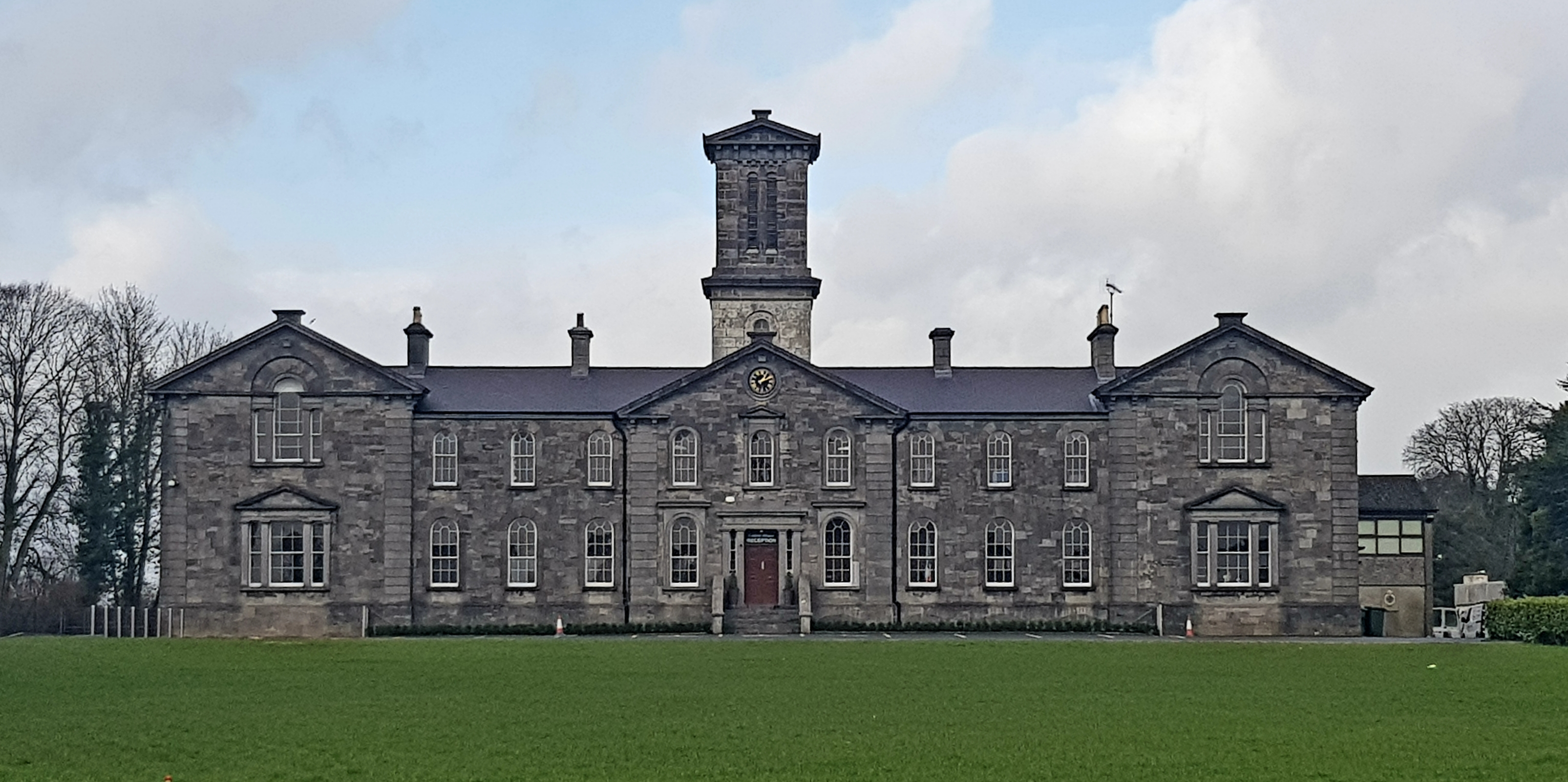 Hevey Institute, the main building in Colaiste Mhuire, Mullingar which opened in October 1856.